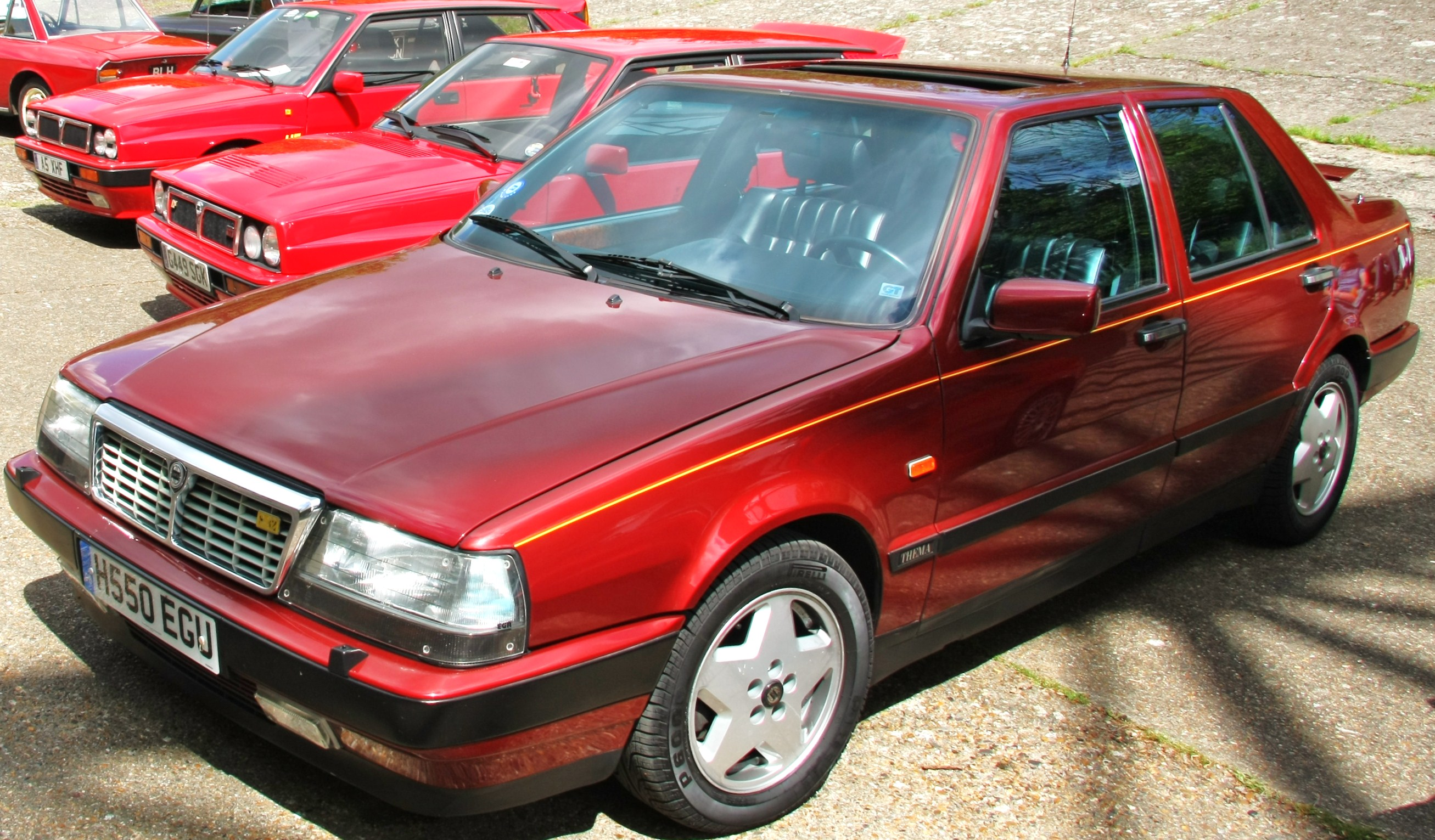 Lancia Thema Ferrari 8.32